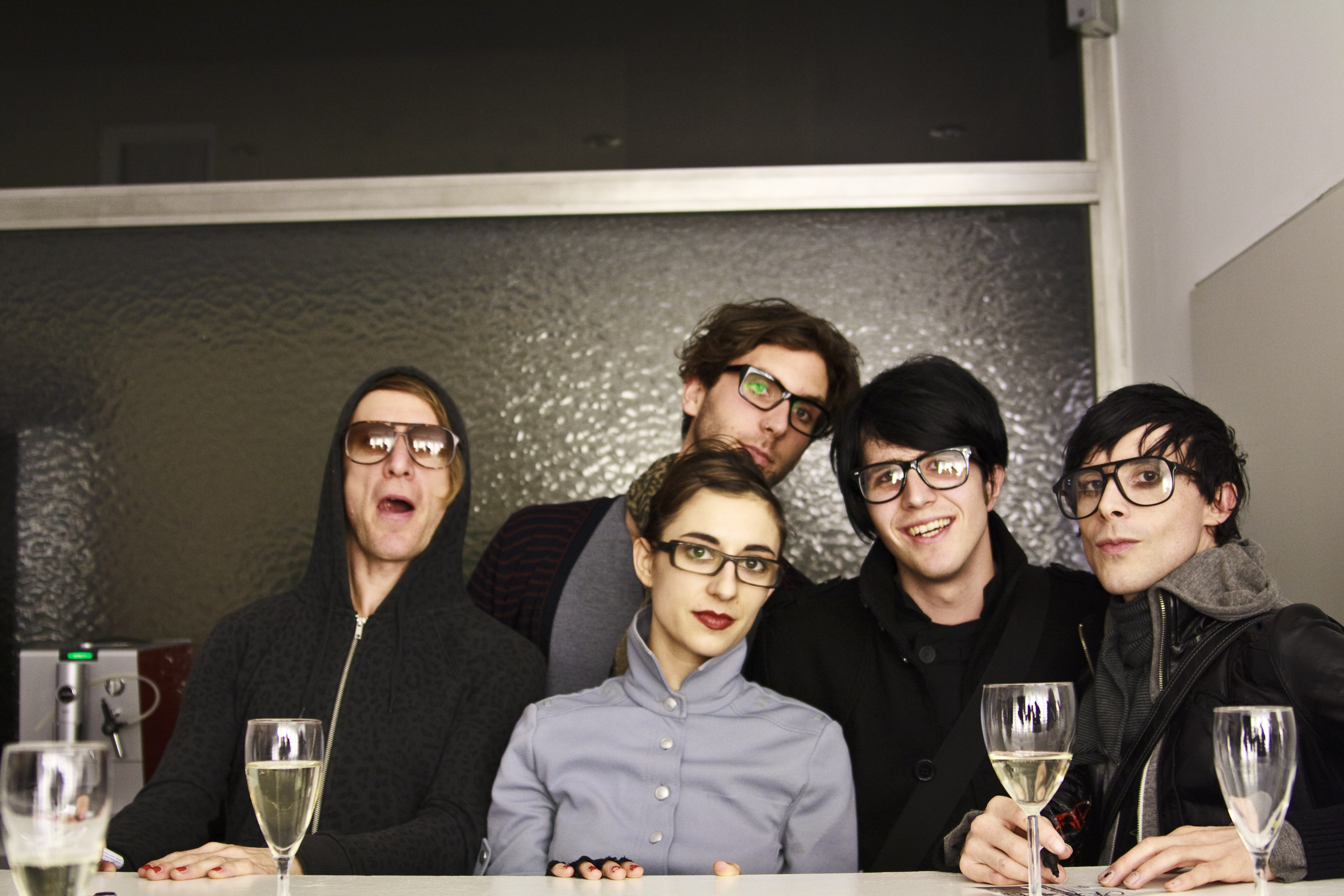 Current IAMX live line-up posing with a fan at an autograph session in Munich on October 29th 2009. (L–R): Dean Rosenzweig, Tom Marsh, Janine Gezang, a fan, Chris Corner